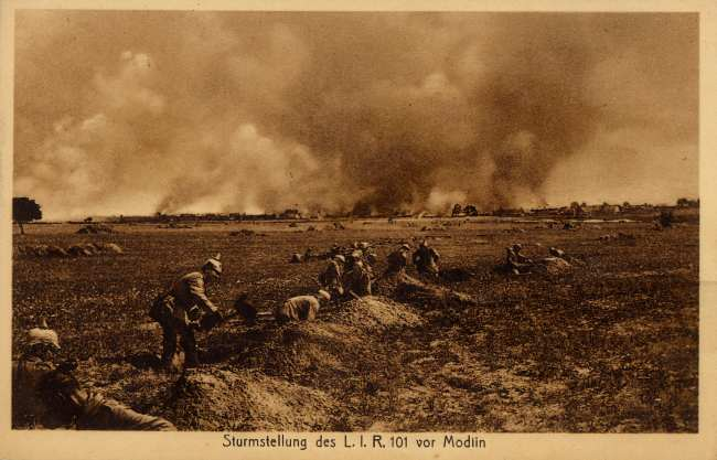 Old Post card depicting the charge of German infantry against the Russian Fortress of Novogeorgievk in August 1915.